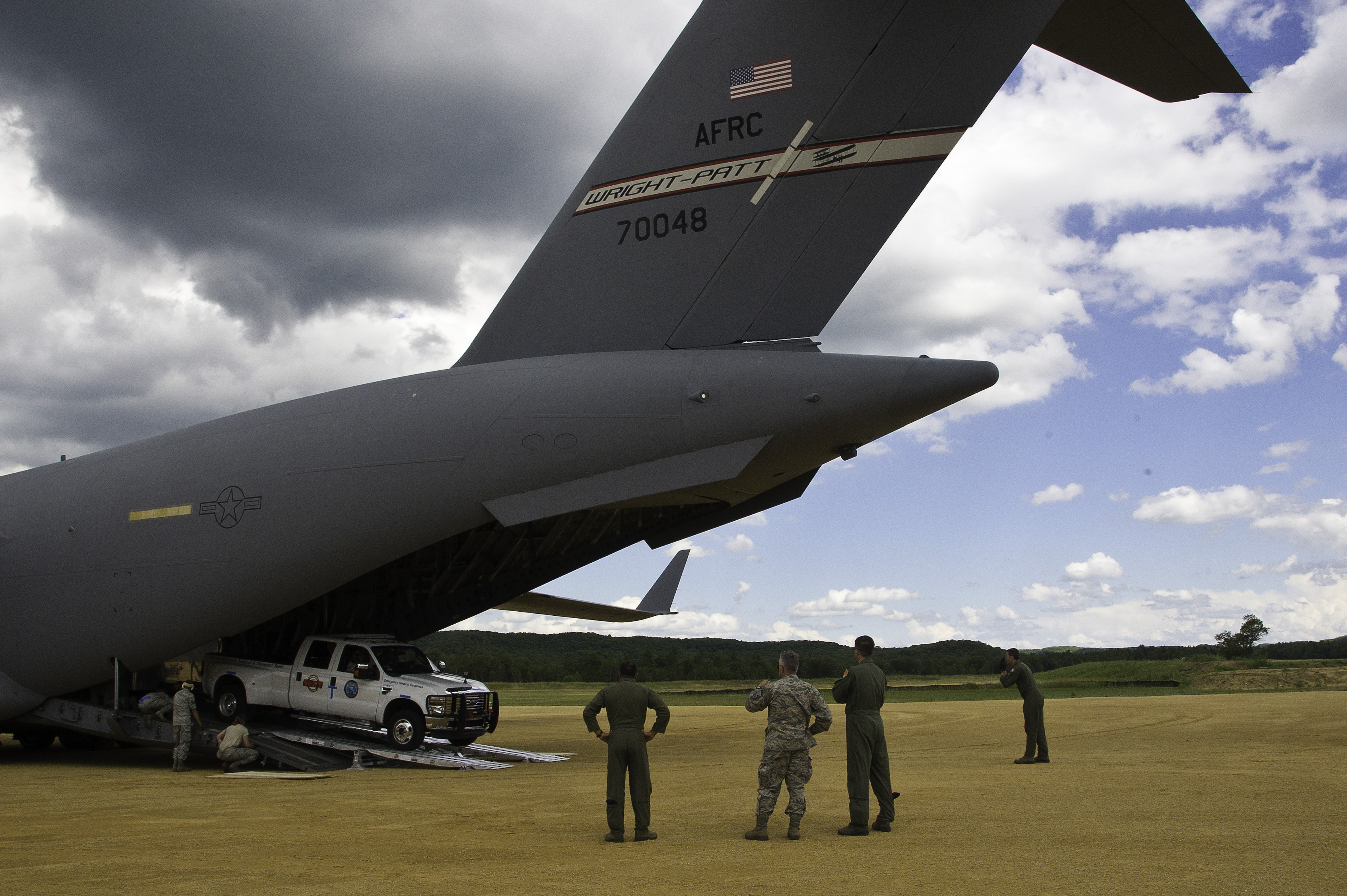 U.S. Air Force airmen help unload equipment belonging to the Advanced Surgical and Transport Team from a C-17 Globemaster III cargo plane with the 89th Airlift Squadron, Wright- Patterson AFB, Ohio., at Fort McCoy, Wis. July 26, 2013. Civilian and military personal are working together in support of Warrior Exercise 86-13-01 (WAREX)/Exercise Global Medic, 2013,. WAREX provides units an opportunity to rehearse military maneuvers and tactics. Held in conjunction with WAREX, Global Medic is an annual joint-field training exercise designed to replicate all aspects of theater combat medical support." (U.S. Air Force photo by Tech. Sgt. Efren Lopez /Released)